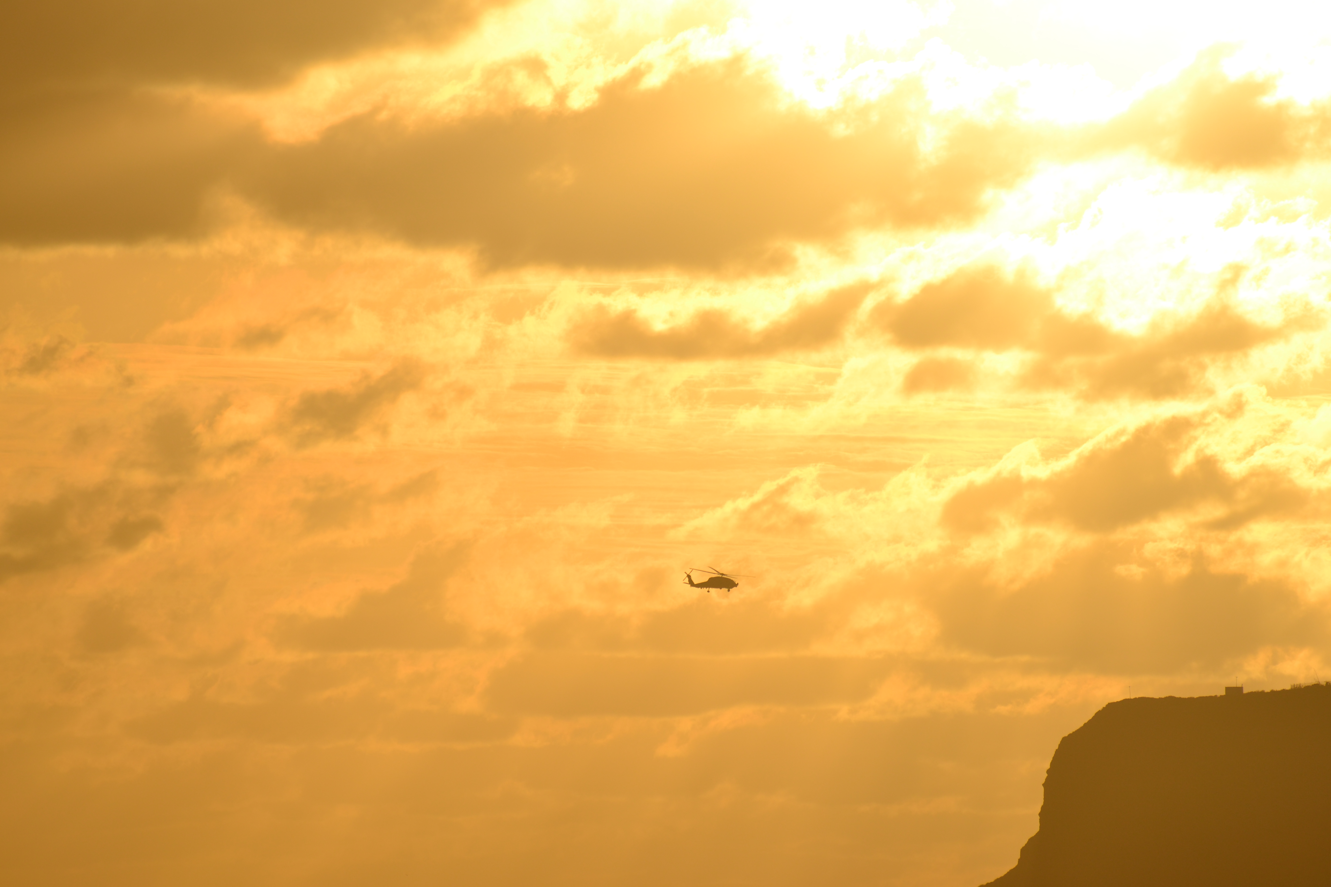 SH-60B Seahawk helicopter from HSL-49 returning to NAS North Island, San Diego, CA in February, 2014.